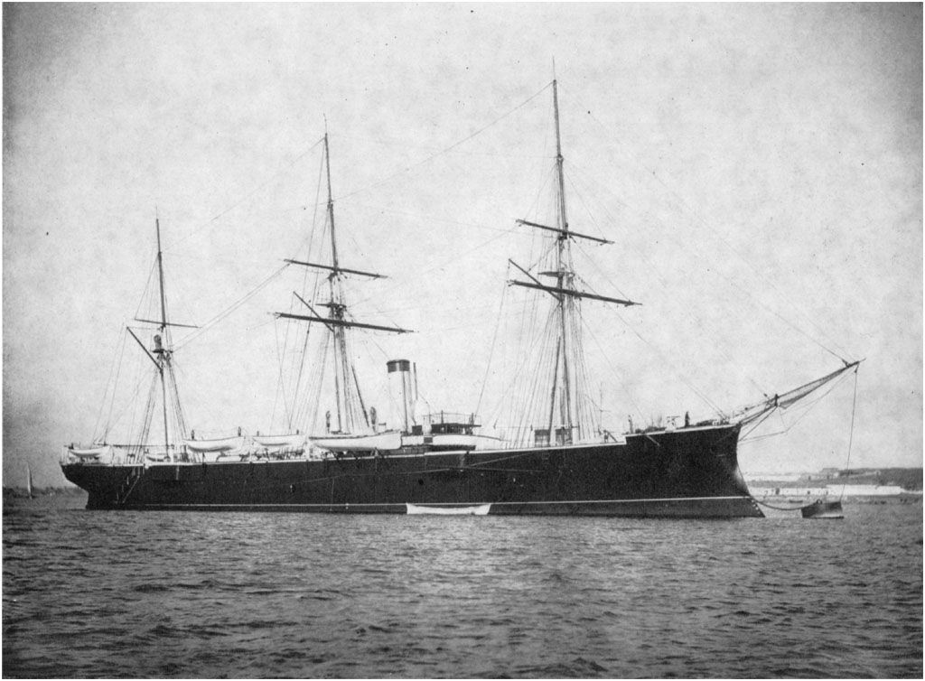 Imperial Russian cruiser Pamiat' Merkuriia.